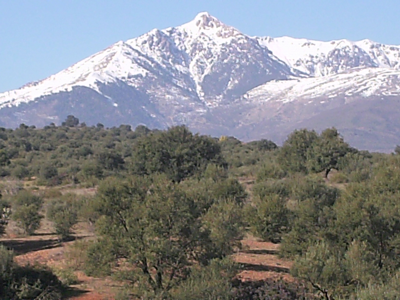 The Lalla Khedidja (Tamgut in Kabyle) is a summit measuring 2308 metres in the Djurdjura range in Kabylie, Algeria.